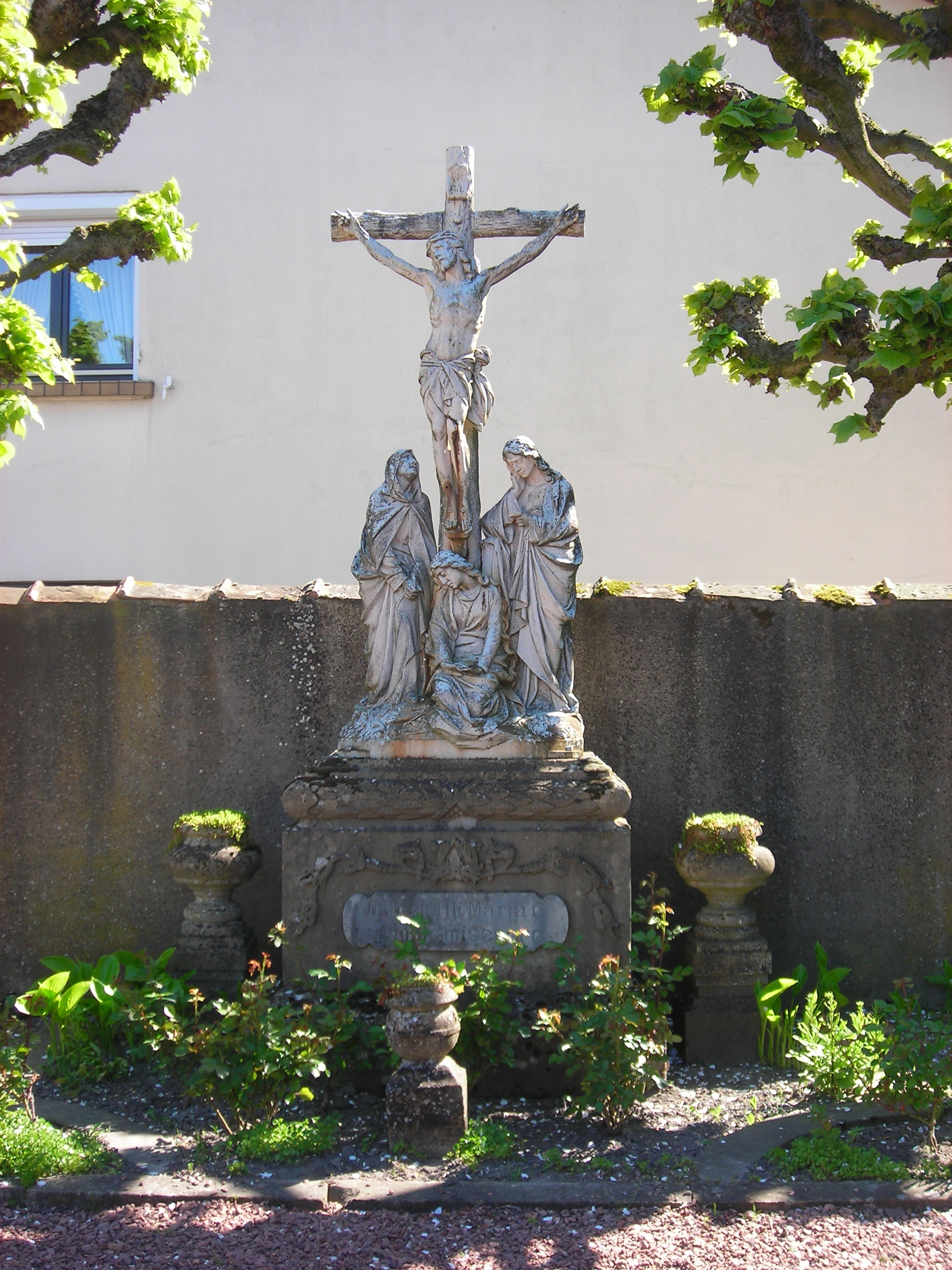 Coume